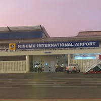 Kisumu International Airport terminal